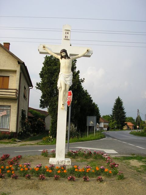 Crucifix in Šemovci